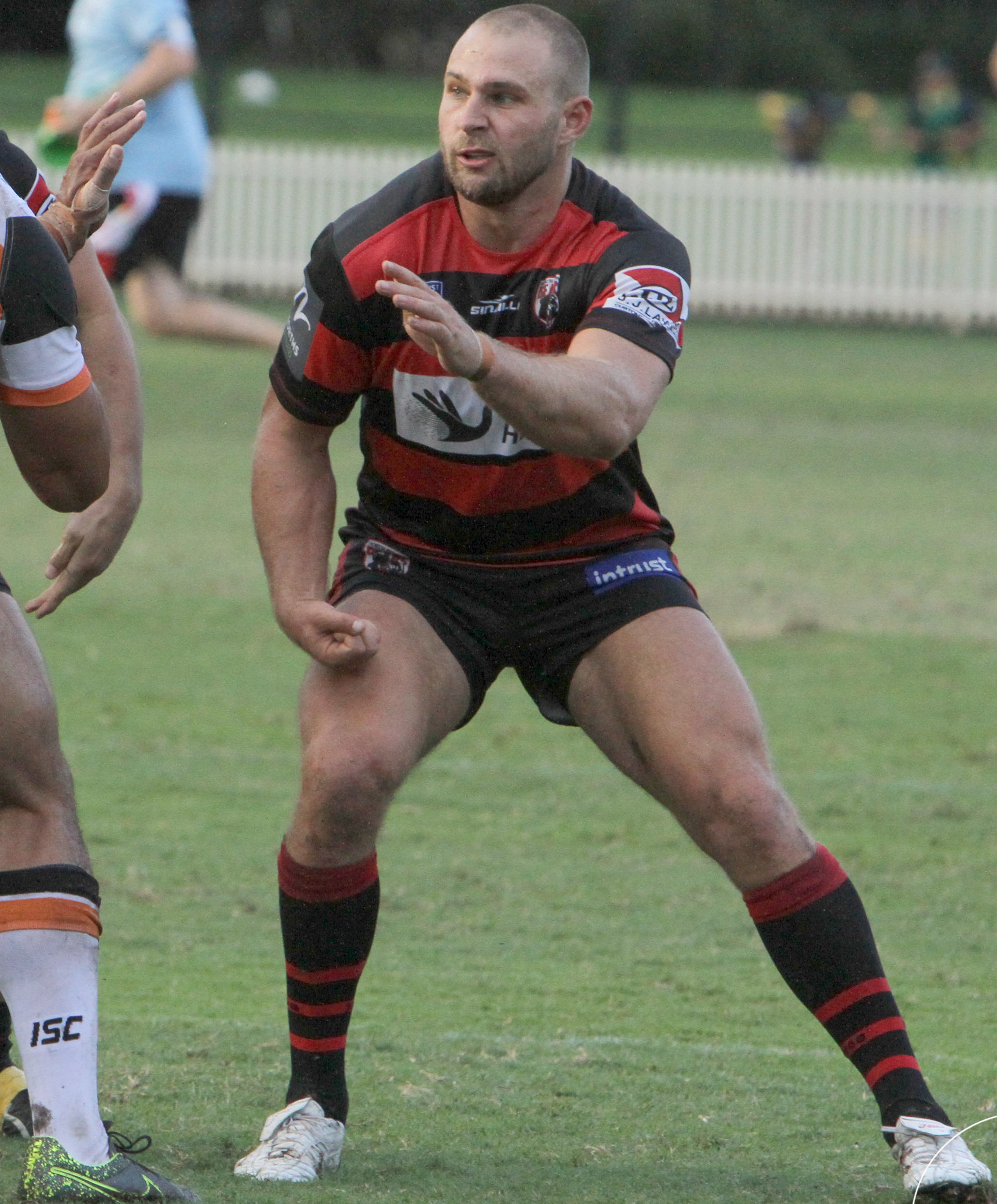 Robbie Rochow